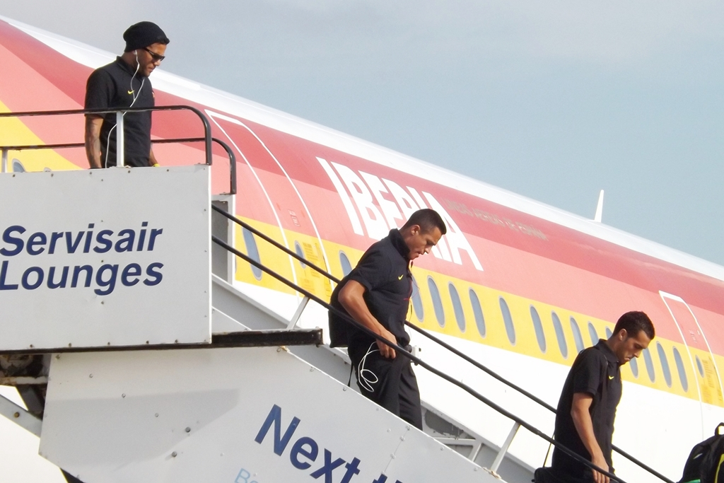 Barcelona FC arriving in Glasgow for their Champions League tie with Glasgow Celtic